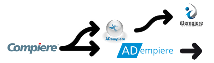 1999 : first (preview) version of Compiere 2006 : start of Adempiere project with split in and 2012 : fork iDempiere